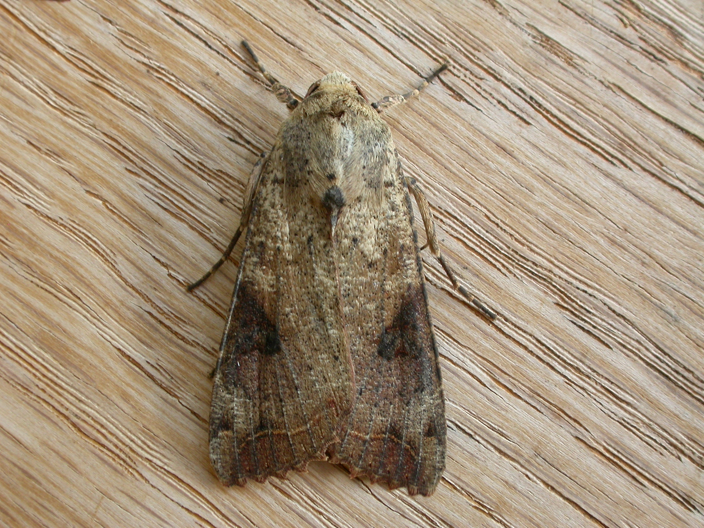 Tiracola plagiata (Walker, 1857), to MV light, Blackheath, NSW, 24/25 January 2011